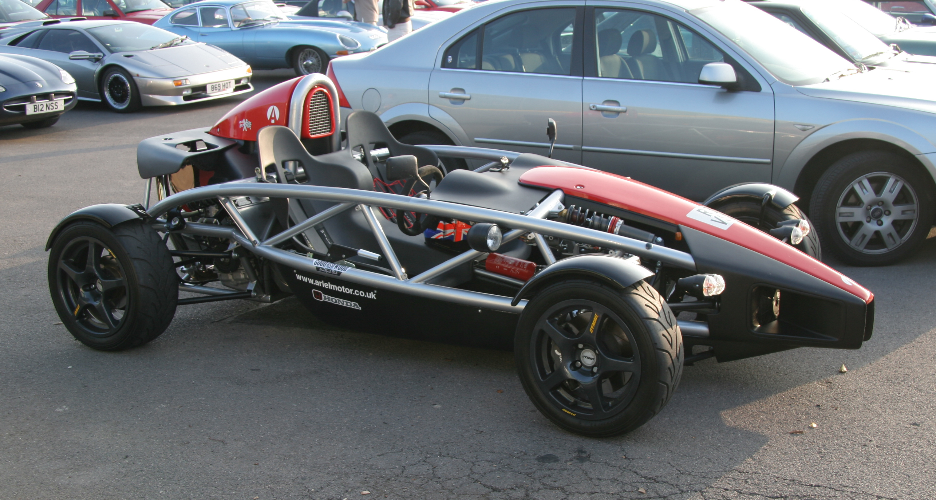 Goodwood car park - Ariel Atom